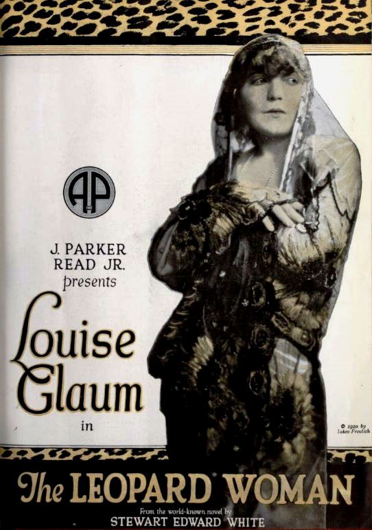 Advertisement for the American drama film The Leopard Woman (1920) with Louise Glaum, from the insert after page 10 of the September 25, 1920 Exhibitors Herald.